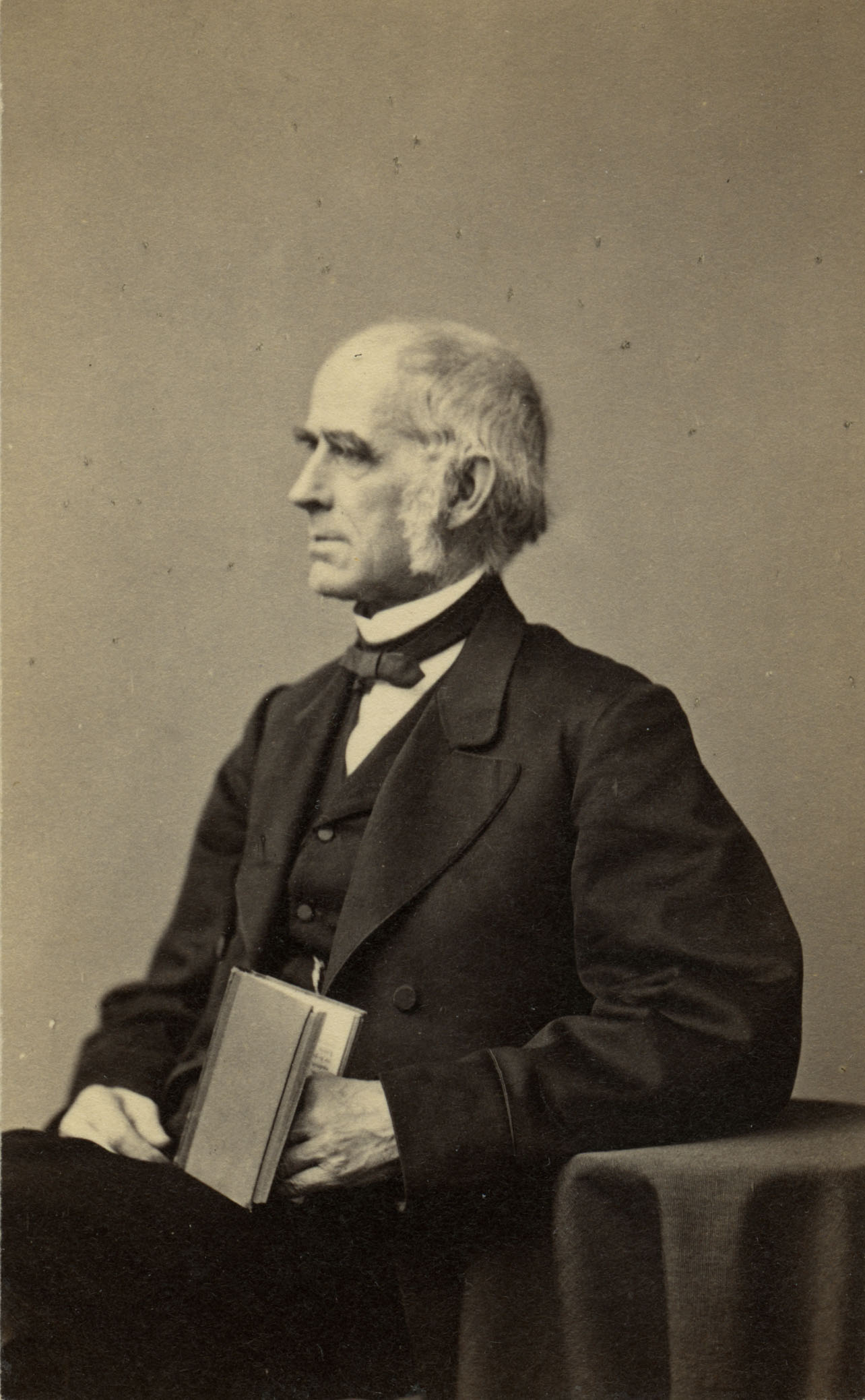 Massachusetts Governor and Harvard Law Professor Emory Washburn.